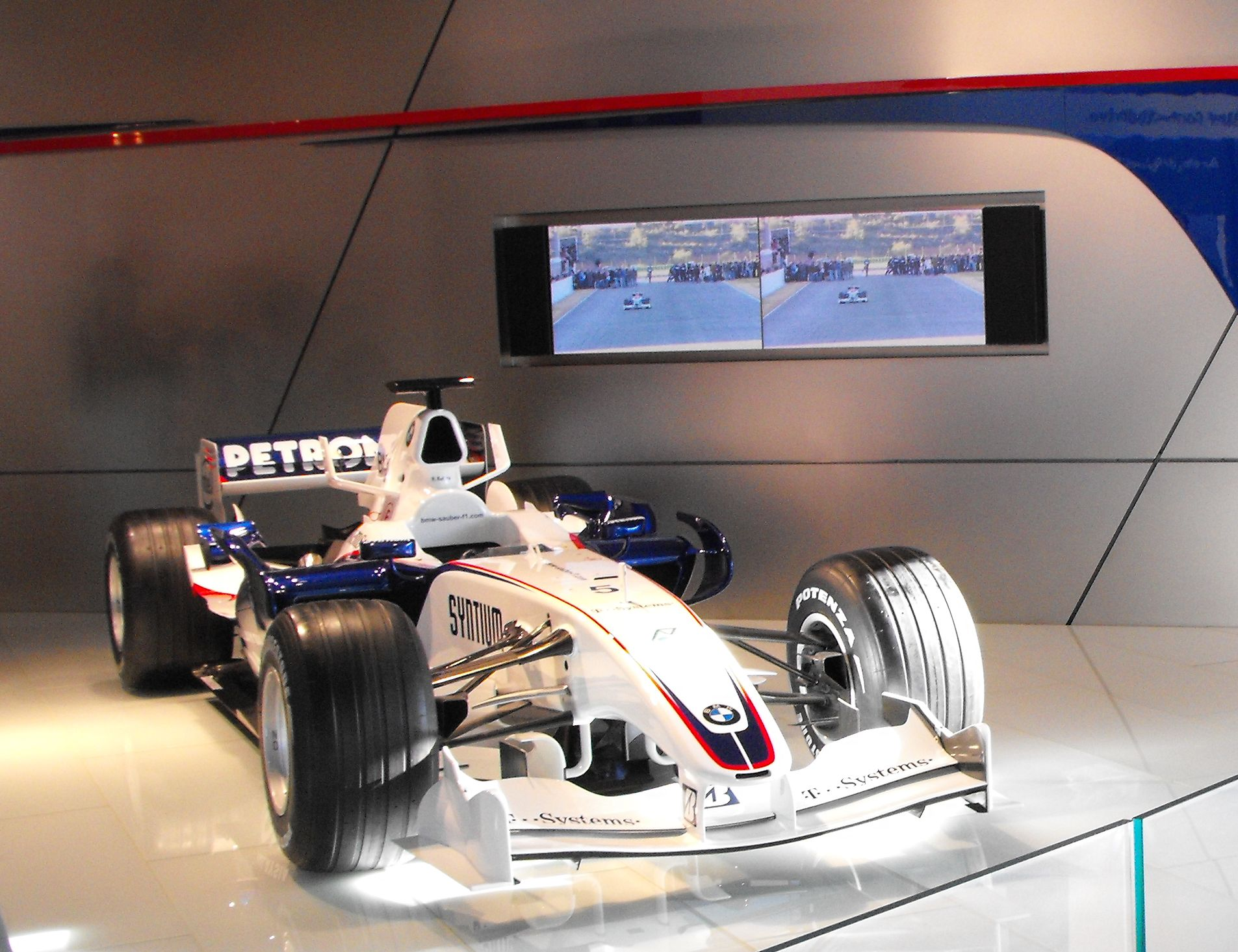 BMW Sauber F1, BMW World, Germany